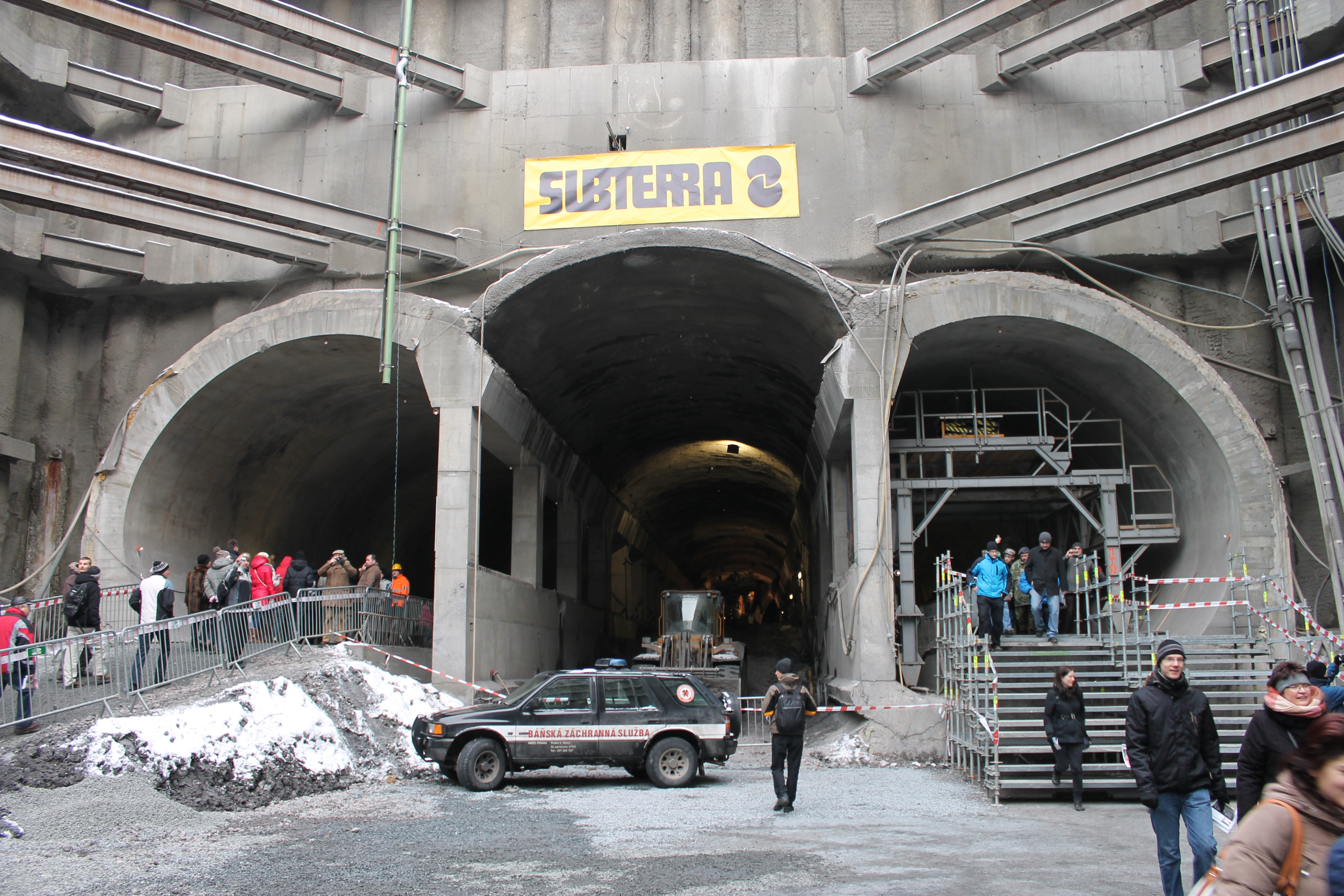 Metro station Veleslavín in Prague, section V.A, open day